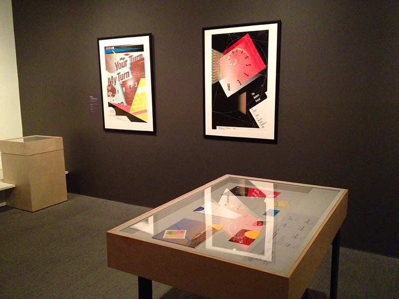 April Greiman's works featured in the exhibition, Designing Modern Women.